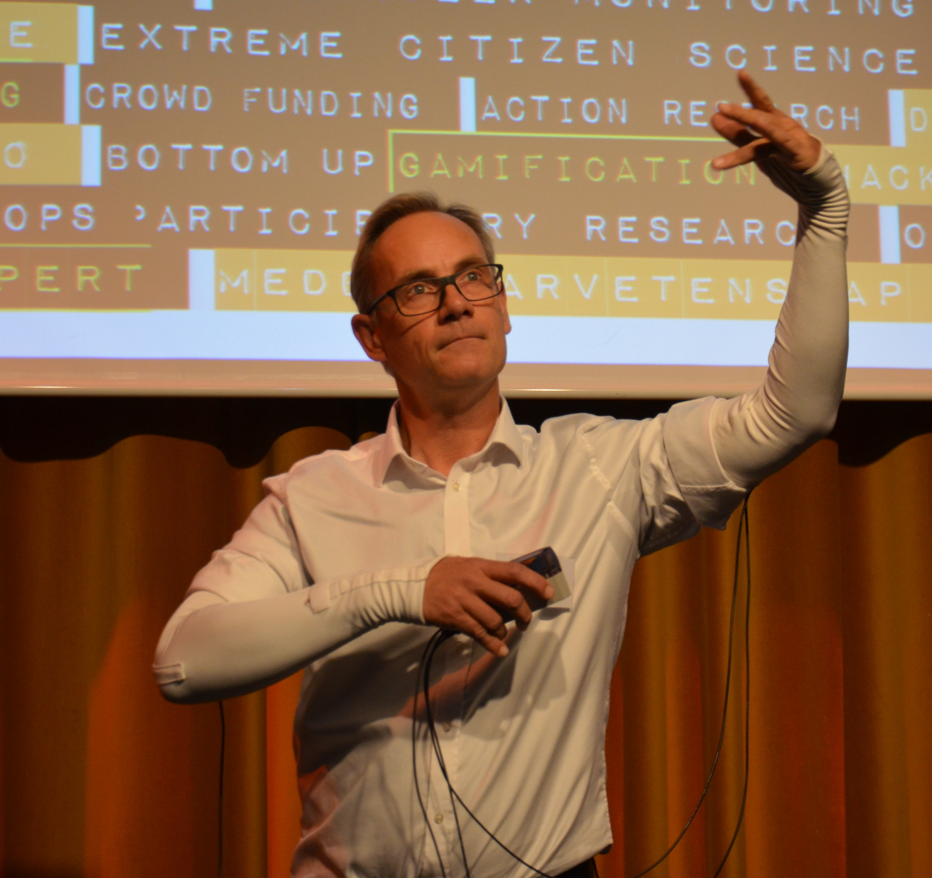 Carl Unander-Scharin demonstrates motion-induced music composing at a conference (Vetenskap & Allmänhet) in Stockholm, October 2015